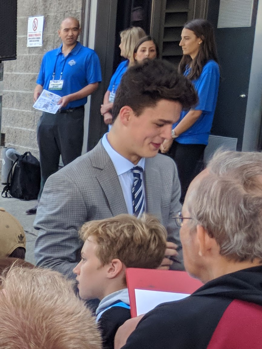 Alex Turcotte at the 2019 NHL Entry Draft in Vancouver, British Columbia, Canada. June 2019.